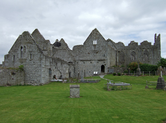 Askeaton Friary This Franciscan friary was founded in 1389 by Gerald "the poet", 4th Earl of Desmond. During the Desmond rebellion of 1579, a government army under Sir Nicholas Malby attacked Askeaton. The town and friary was burned, and several of the monks massacred. The friary was re-established in 1627, and continued until its demise in 1740.